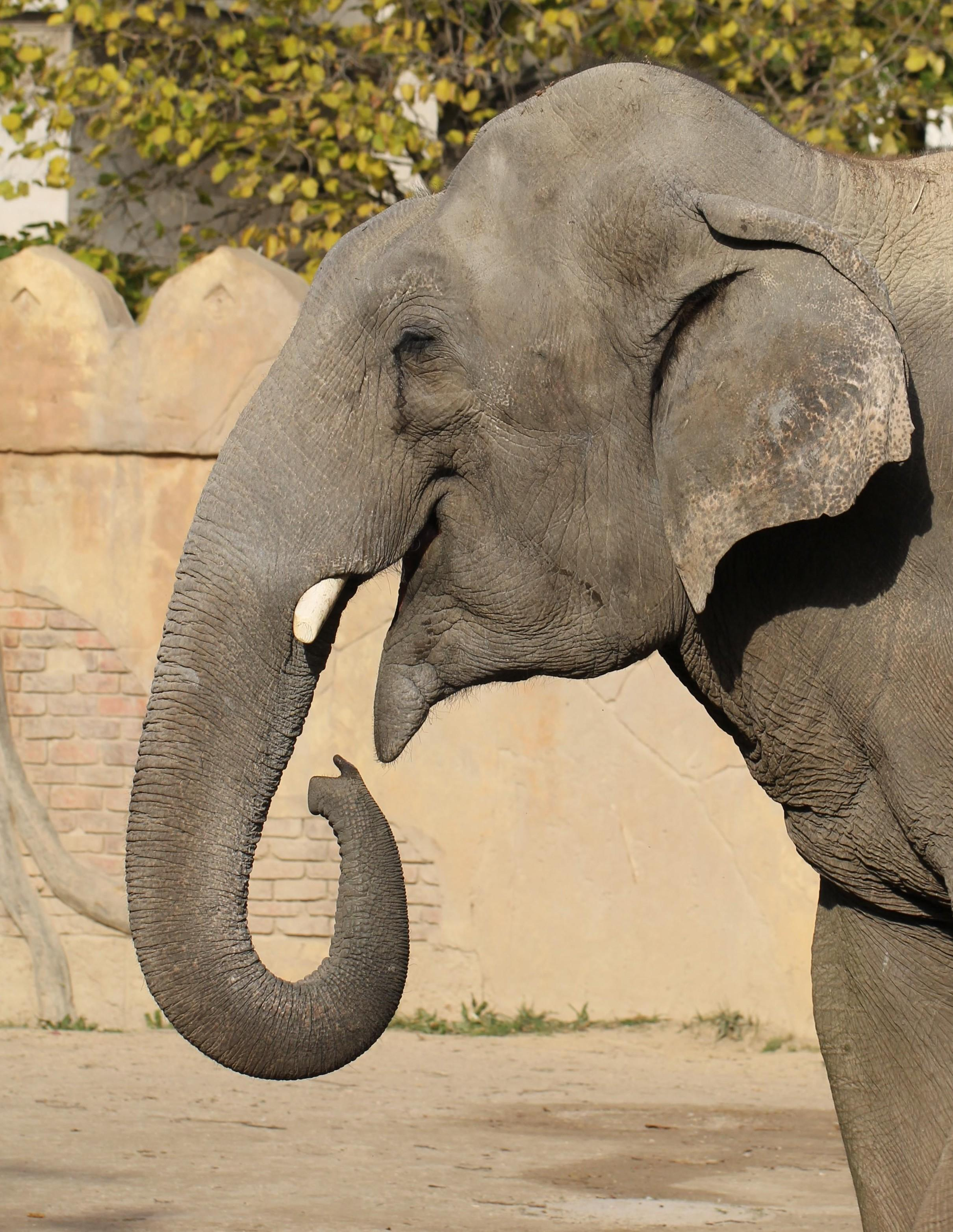 This is a picture of Elephas maximus (Asian elephant). For more pictures visit